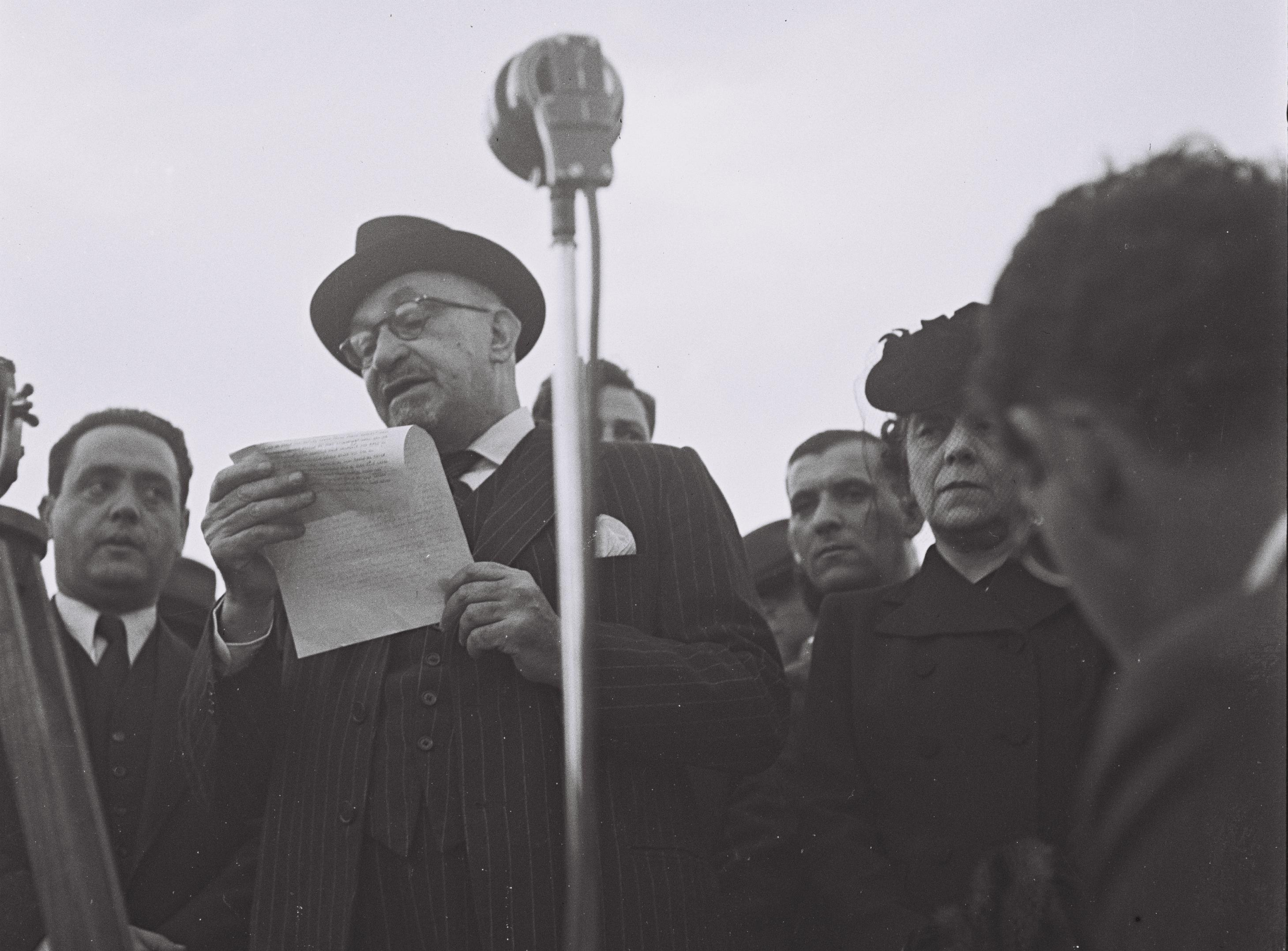 HAIM WEIZMAN SPEAKING IN TEL AVIV DURING HIS VISIT TO THE CITY. חיים וייצמן נושא דברים בעת ביקורו בתל אביב.